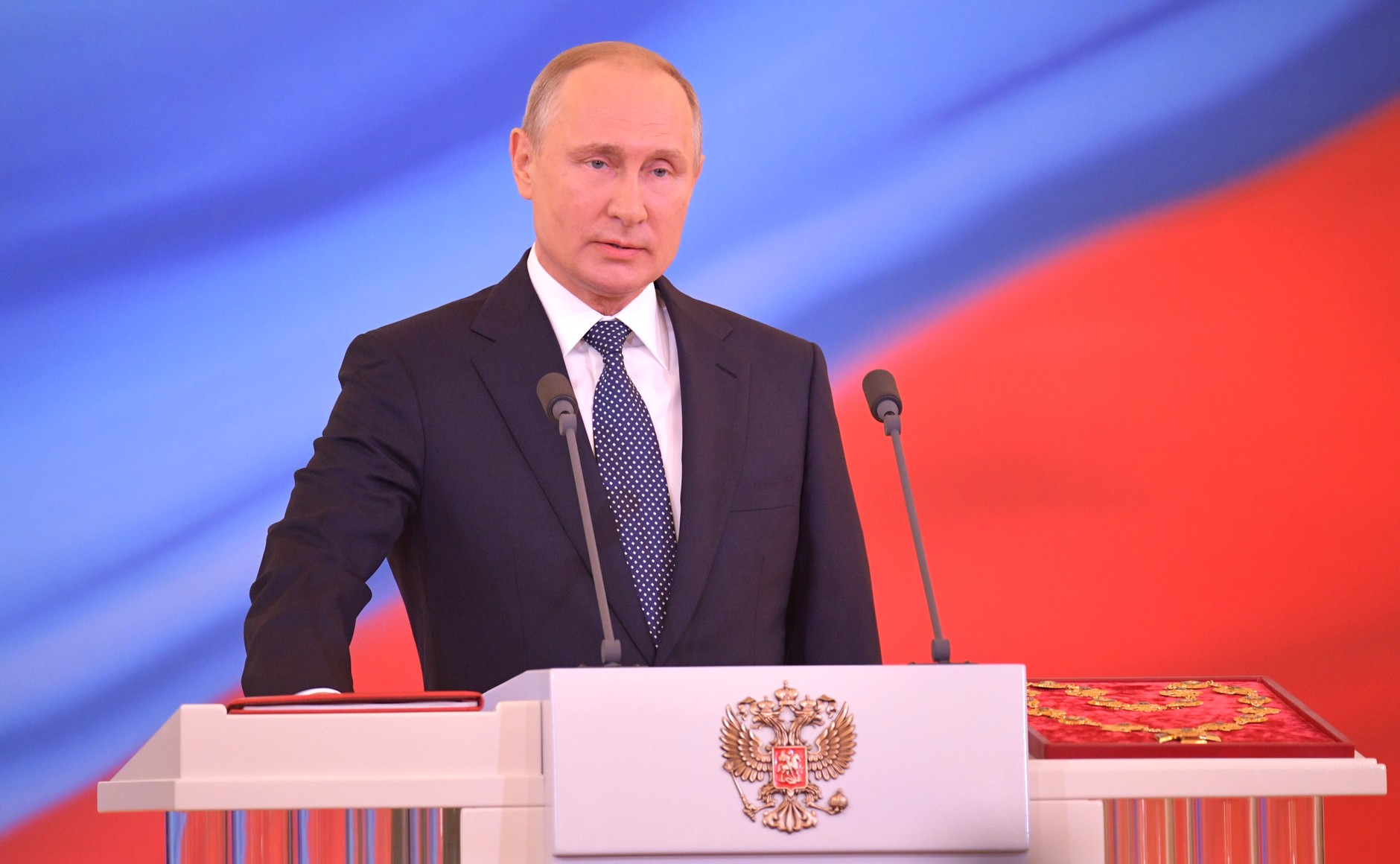 Vladimir Putin has been sworn in as President of Russia (2018)